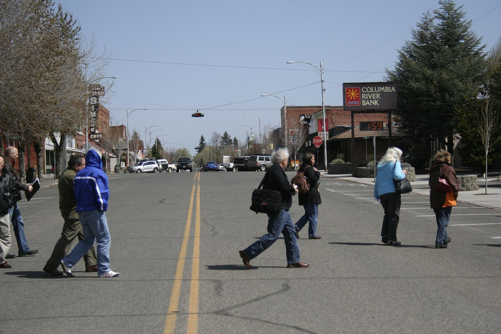 Looking down the main street of Goldendale, Washington